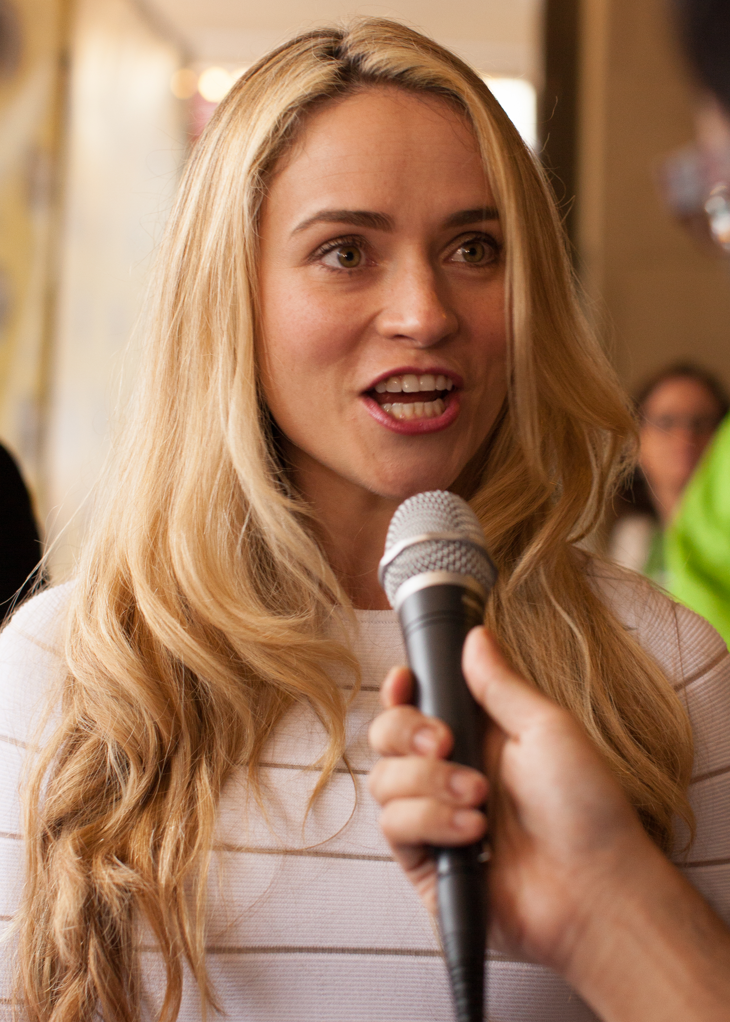 Veronica Mars SXSW (431 of 601).jpg